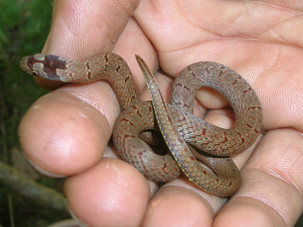 Oligodon affinis young, Wynaad, Kerala - Google Maps - Google Earth